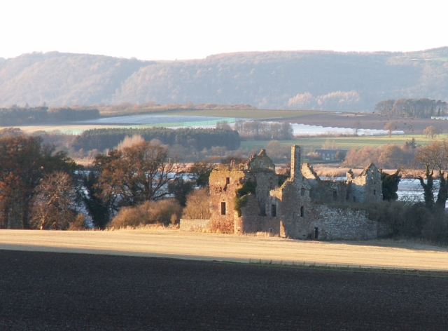 Ballinbreich Castle. Ballinbreich Castle. Original parts date from the mid to late 1300s with major extensions in the mid 1500s. Allowed to fall into decay from the late 1800s onwards as the owner’s interests moved North.